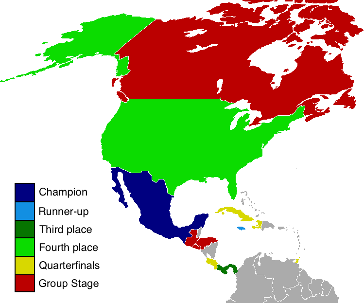 Map of the participating nations